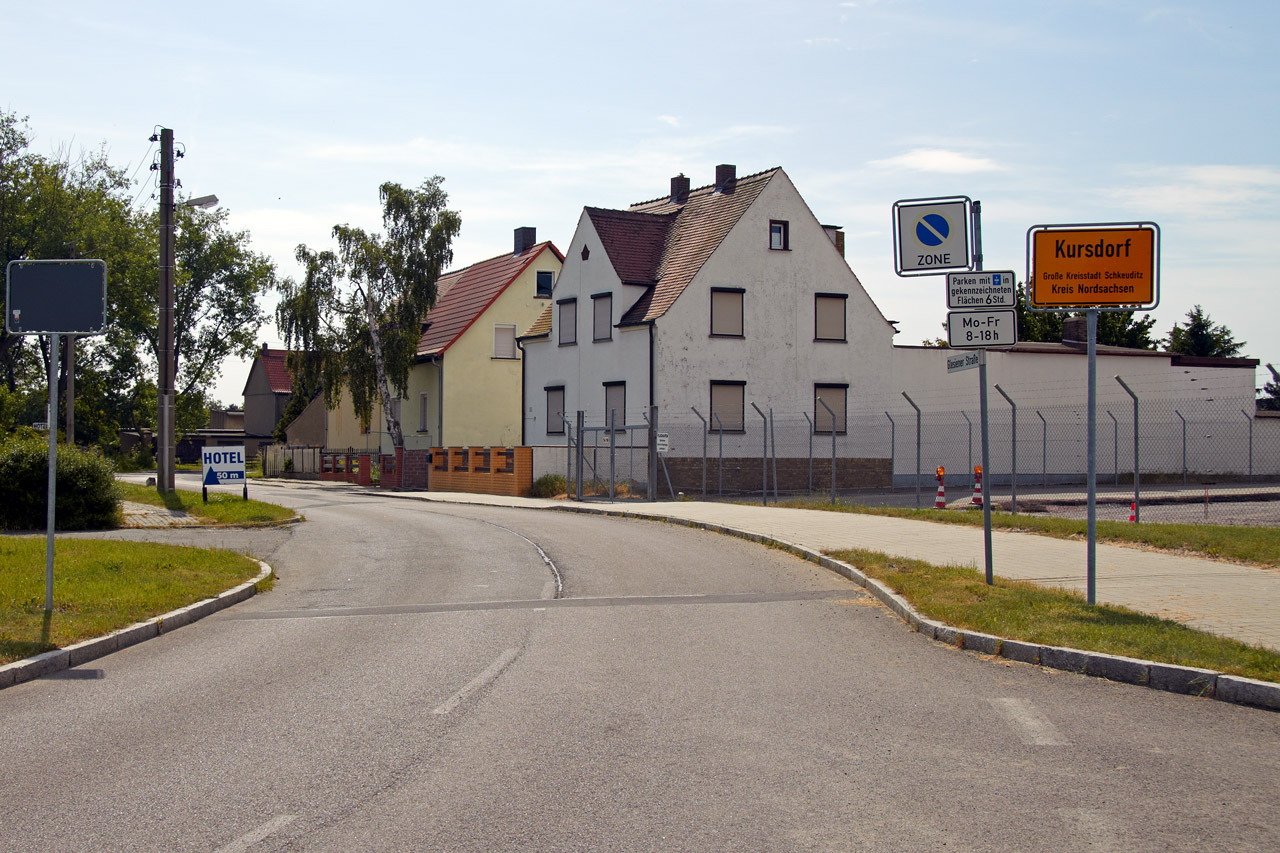 Kursdorf in Saxony is a village surrounded by the LEJ-Airport, trainpath and freeway. So it fades away.